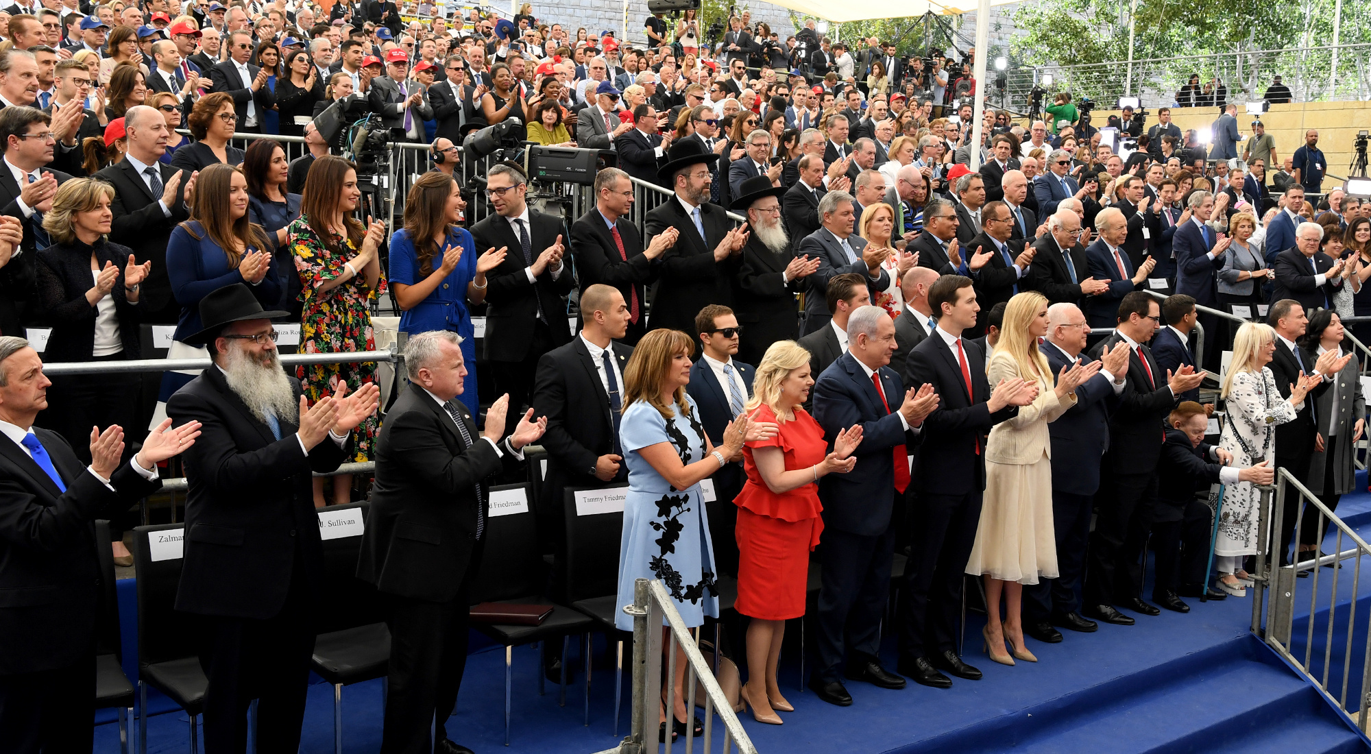 Embassy Dedication Ceremony